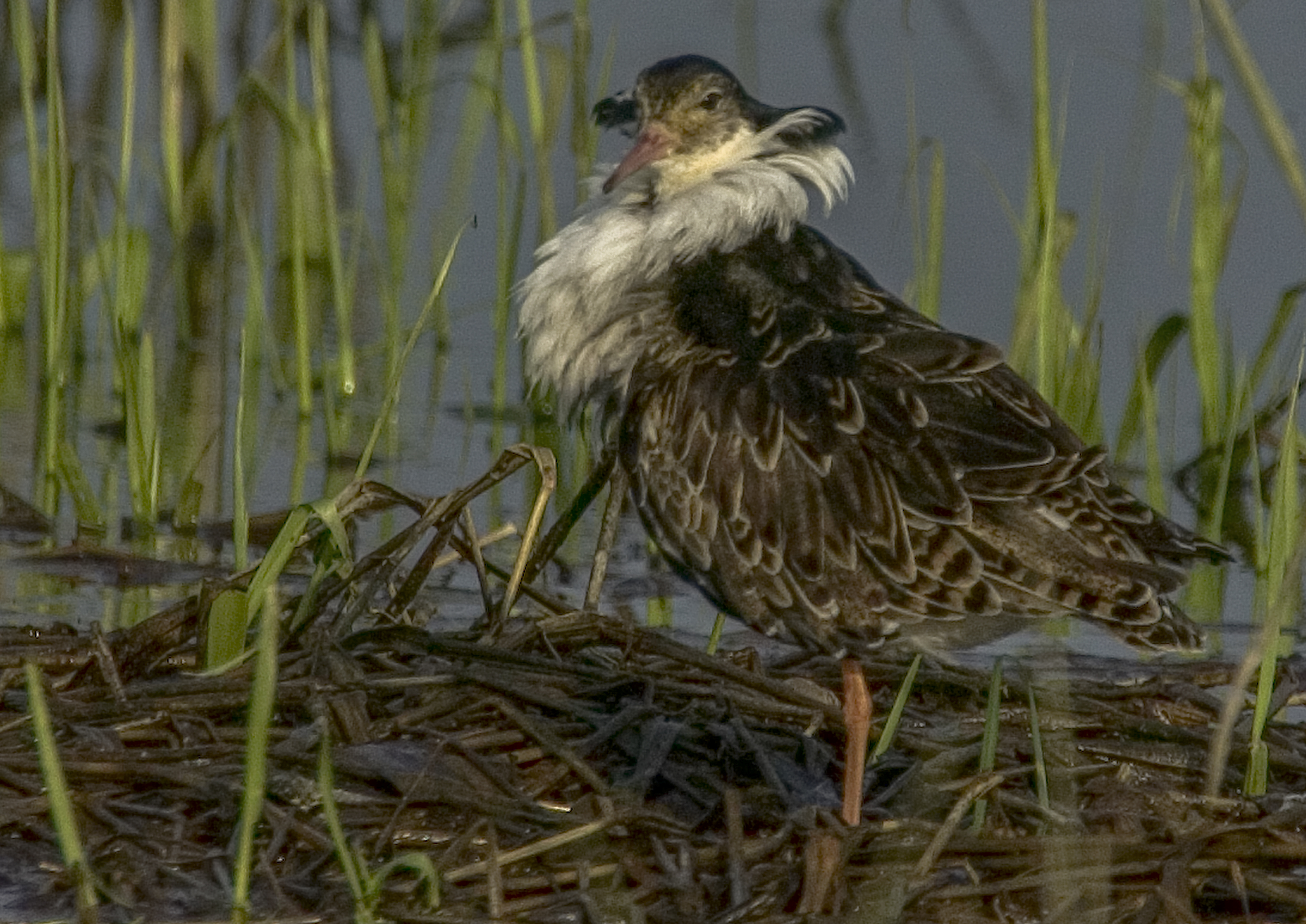 The ruffs (Calidris pugnax), Narew river near Wizna, Poland